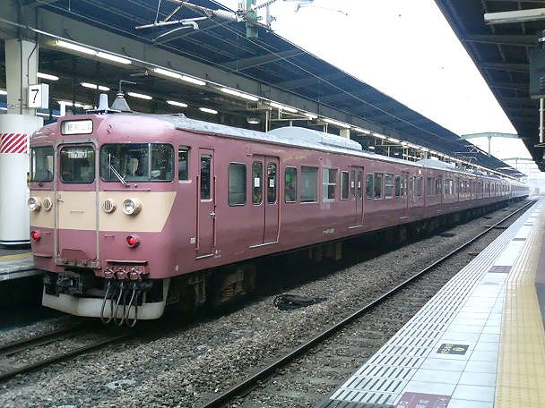 JR Kyushu EMU Type415 F5